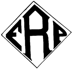 Logo for F.R.P. automobiles, built 1914-1916 by the Finley Robinson Porter Company in Port Jefferson, NY.